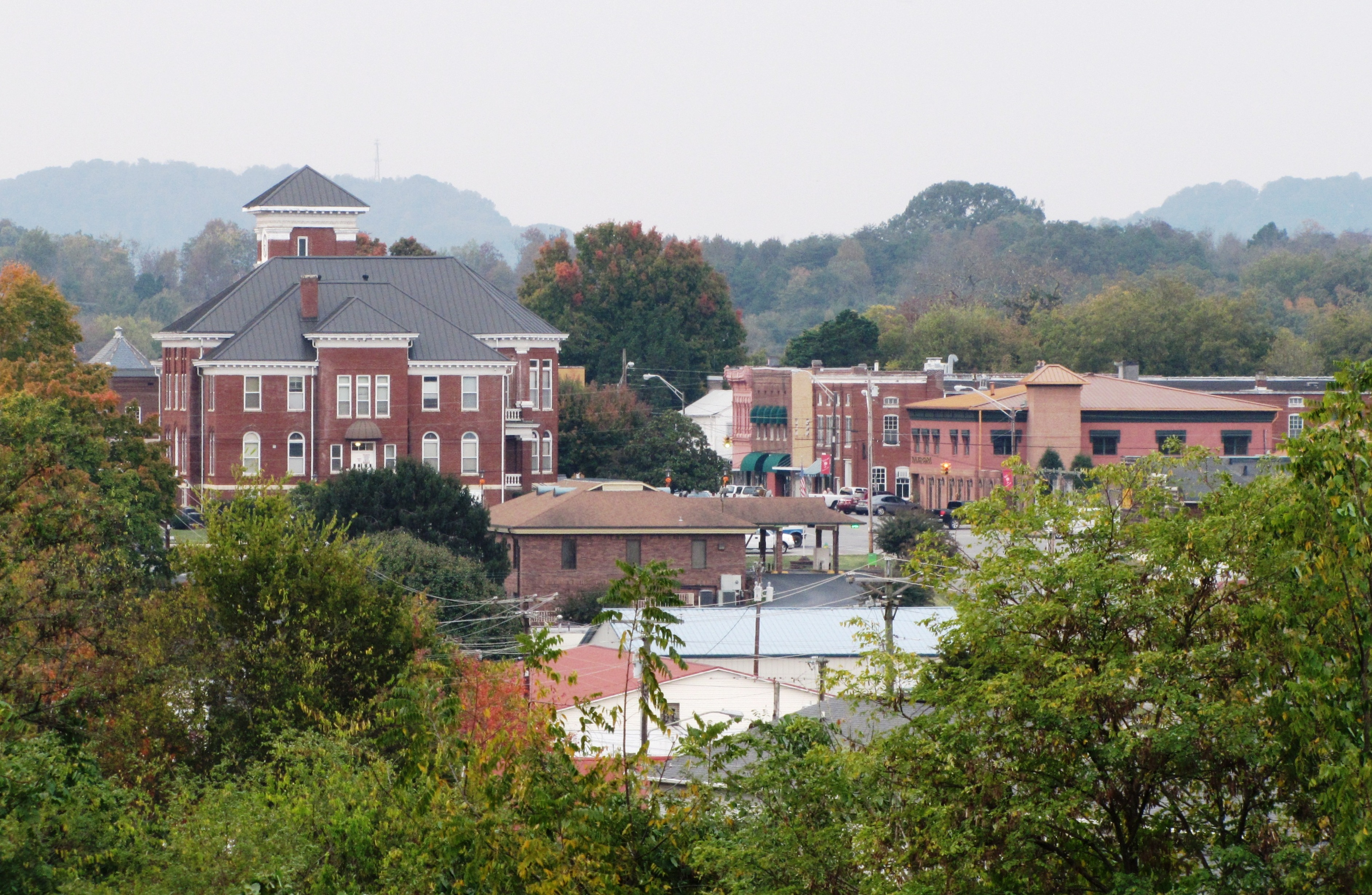 Madisonville, Tennessee, viewed from the Veterans' Monument along US-411. The large building on the left is the Monroe County Courthouse.